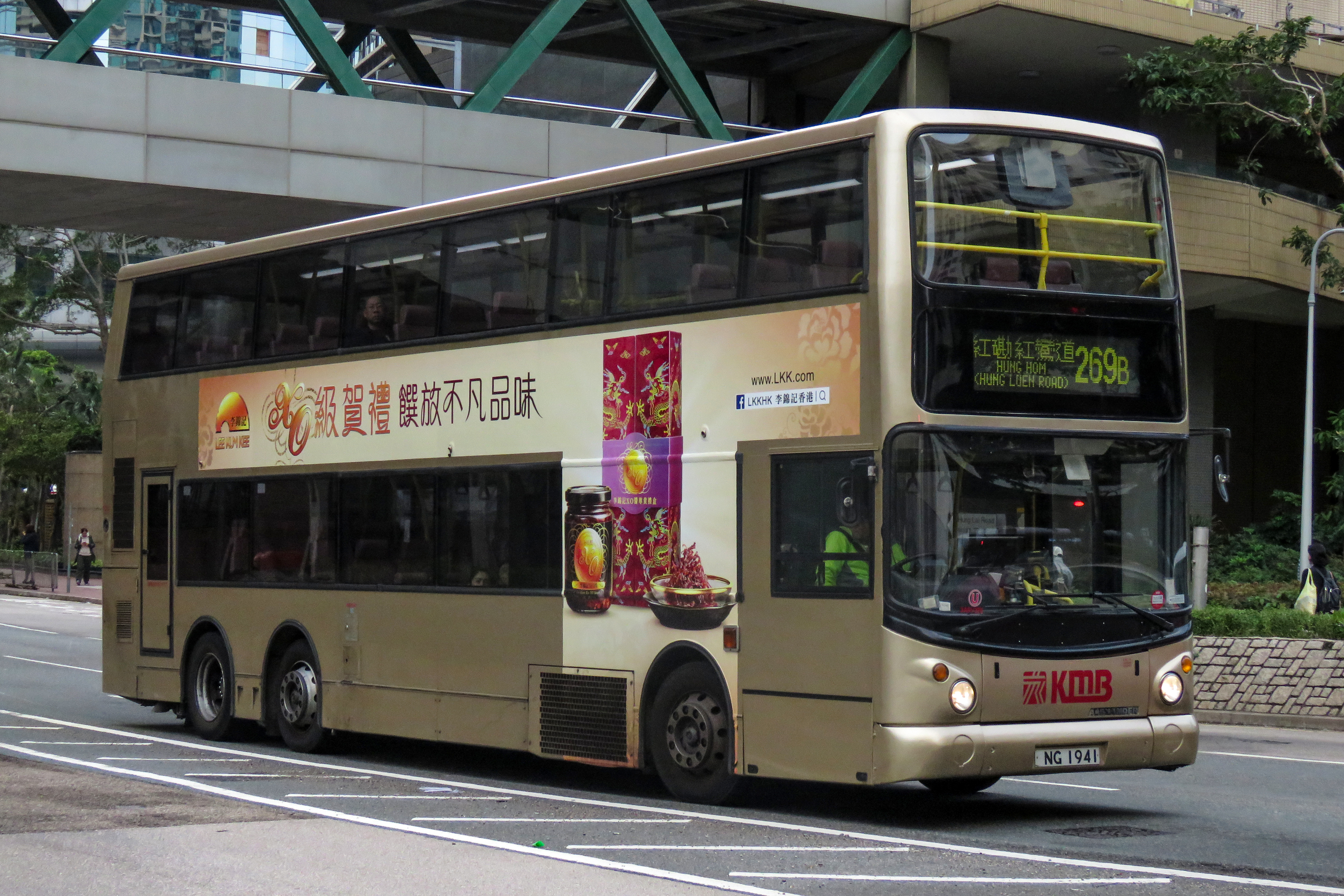 What, former KP4535 is still in service?